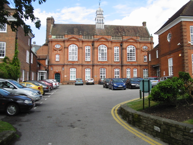 Cranbrook School Cranbrook School is a voluntary aided non-denominational boarding and day co-educational grammar school catering for pupils in the top 25% of the ability range aged from 13 to 18.